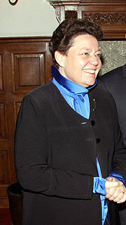 Yvonne Timmerman-Buck, Dutch politician